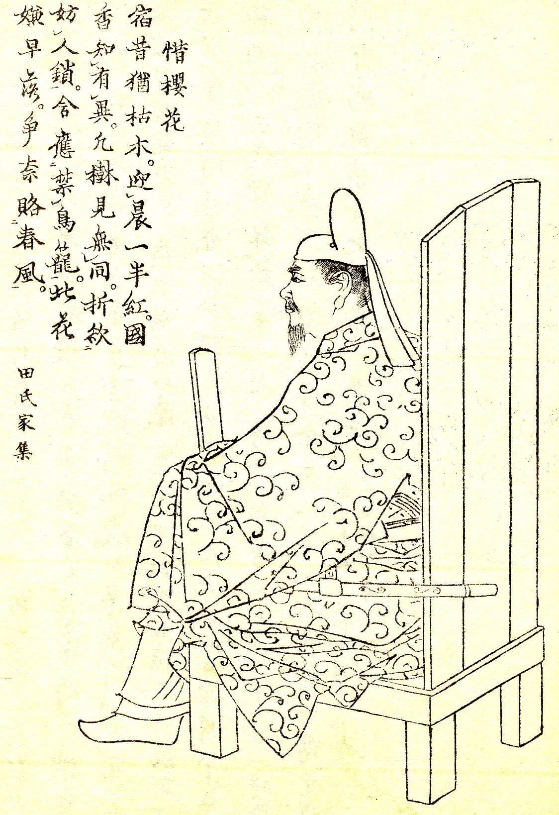 Shimada no Tadaomi(島田忠臣)was a Japanese court noble in Heian period.This picture was drawn by Kikuchi Yōsai(菊池容斎).